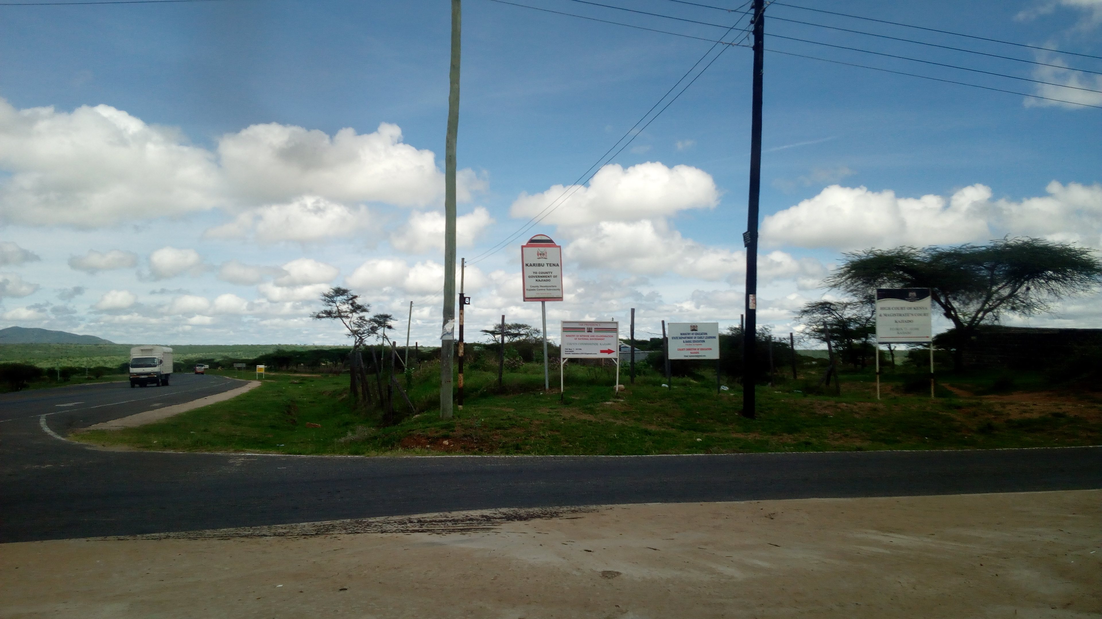 This is an image with the theme "Africa on the Move or Transport" from: Kenya